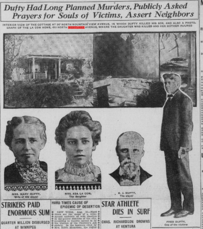 This section of page 1 of the Los Angeles Herald of August 14, 1908, shows photos of the house where H.J. Diffy killed his son, beneath which are photos of Mrs. Mary Duffy, wife of the slayer; Mrs. Ada La Con, his daughter; H.J. Duffy, the killer, and Fred Duffy, his son. The address of the house at the left was 247 North Mountain View Avenue, Westlake, California, where the son died, and that of the room at the right, where the daughter died, was 453 North Westlake Avenue. Upon trial, the killer was found insane.